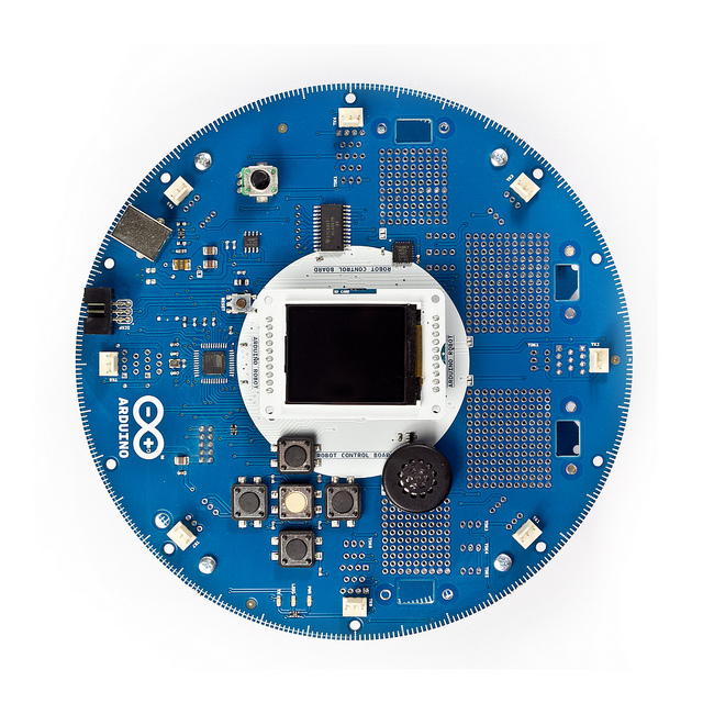 The Arduino Robot is the first official Arduino on wheels. The robot has two processors, one on each of its two boards. The Motor Board controls the motors, and the Control Board reads sensors and decides how to operate. Each of the boards is a full Arduino board programmable using the Arduino IDE.